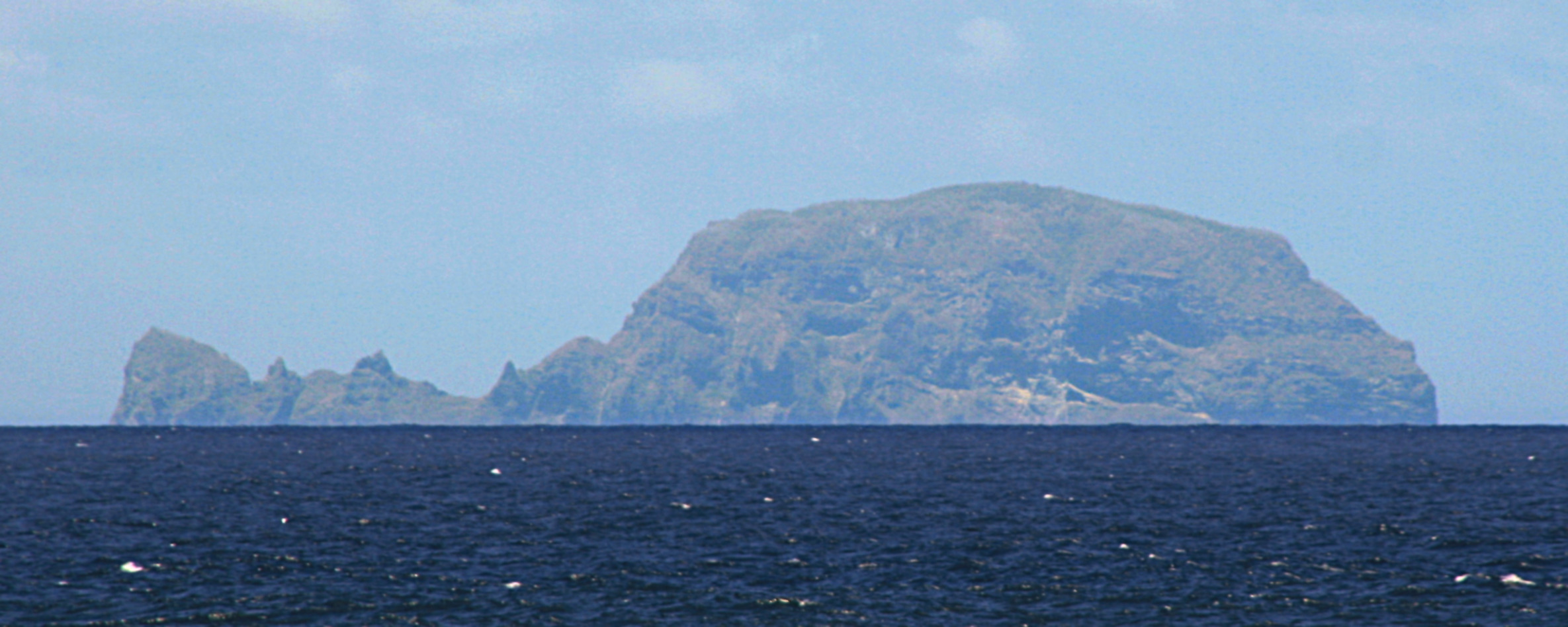 Fatu Huku island, viewed from a boat near Hiva Oa, Marquesas Islands, French Polynesia.